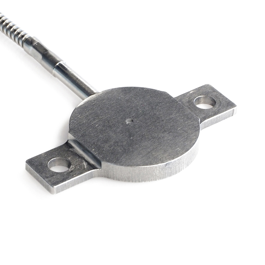 Industrial heat flux sensor (Hukseflux IHF01)